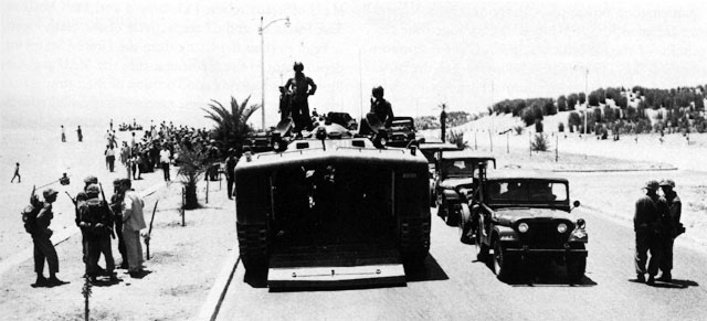 U.S. Marines of Battalion Landing Team 2/2 form a LVT and tank column on the beach road for the move into Beirut on 16 July 1958. They were the first of the 2d Provisional marine Force to enter the city on this date. The Mediterranean is in the background to the left.